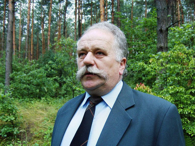 Polish MP (Senator) Stanisław Majdański